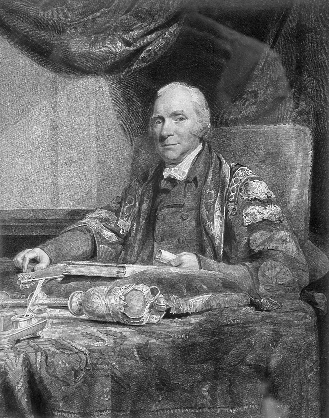 John Latham (1761–1843), President of the Royal College of Physicians. Artist: John Jackson (1778 – 1831). Engraving circa 1816.